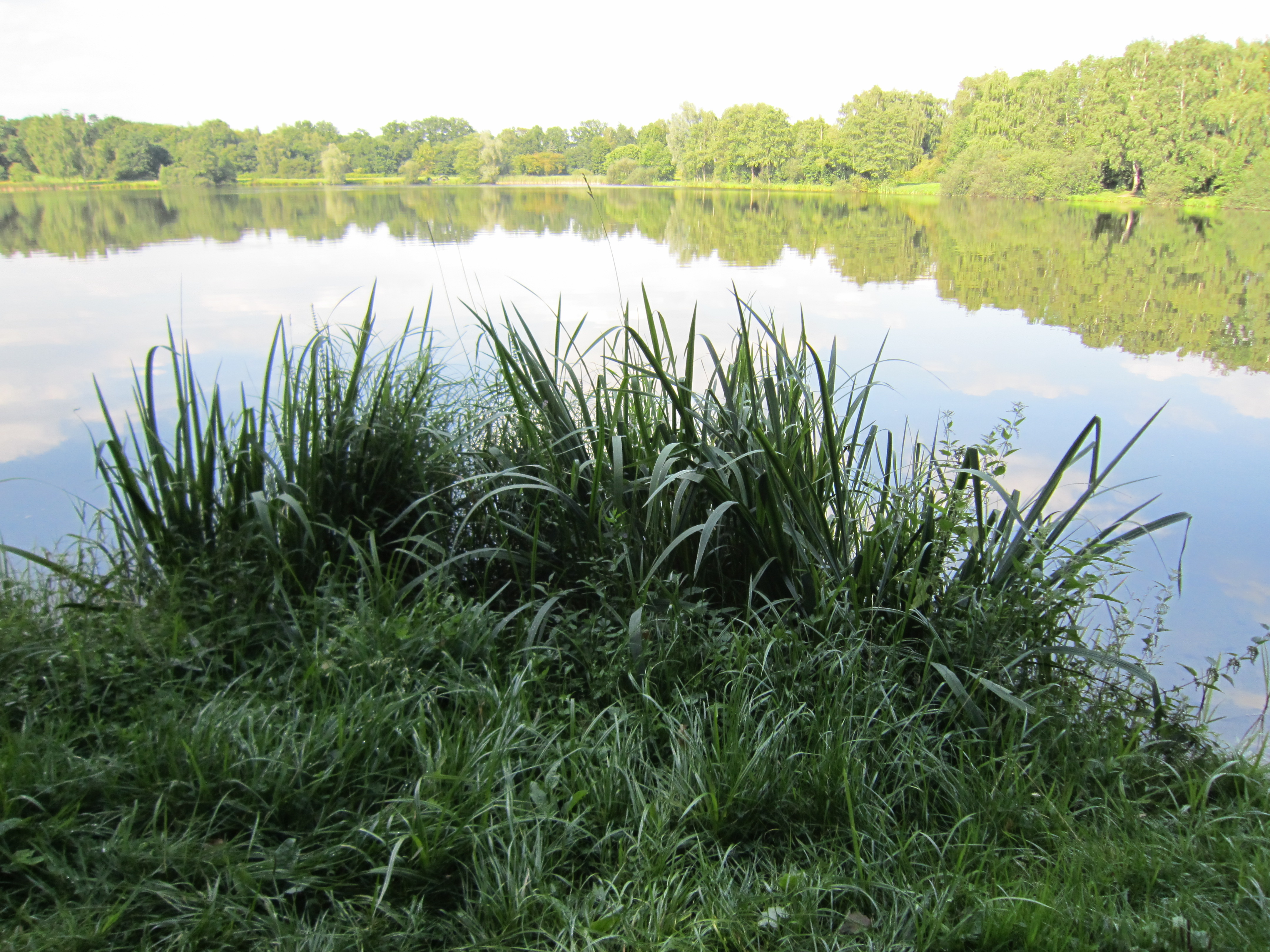 Lake "Feriensee" in Quakenbrück